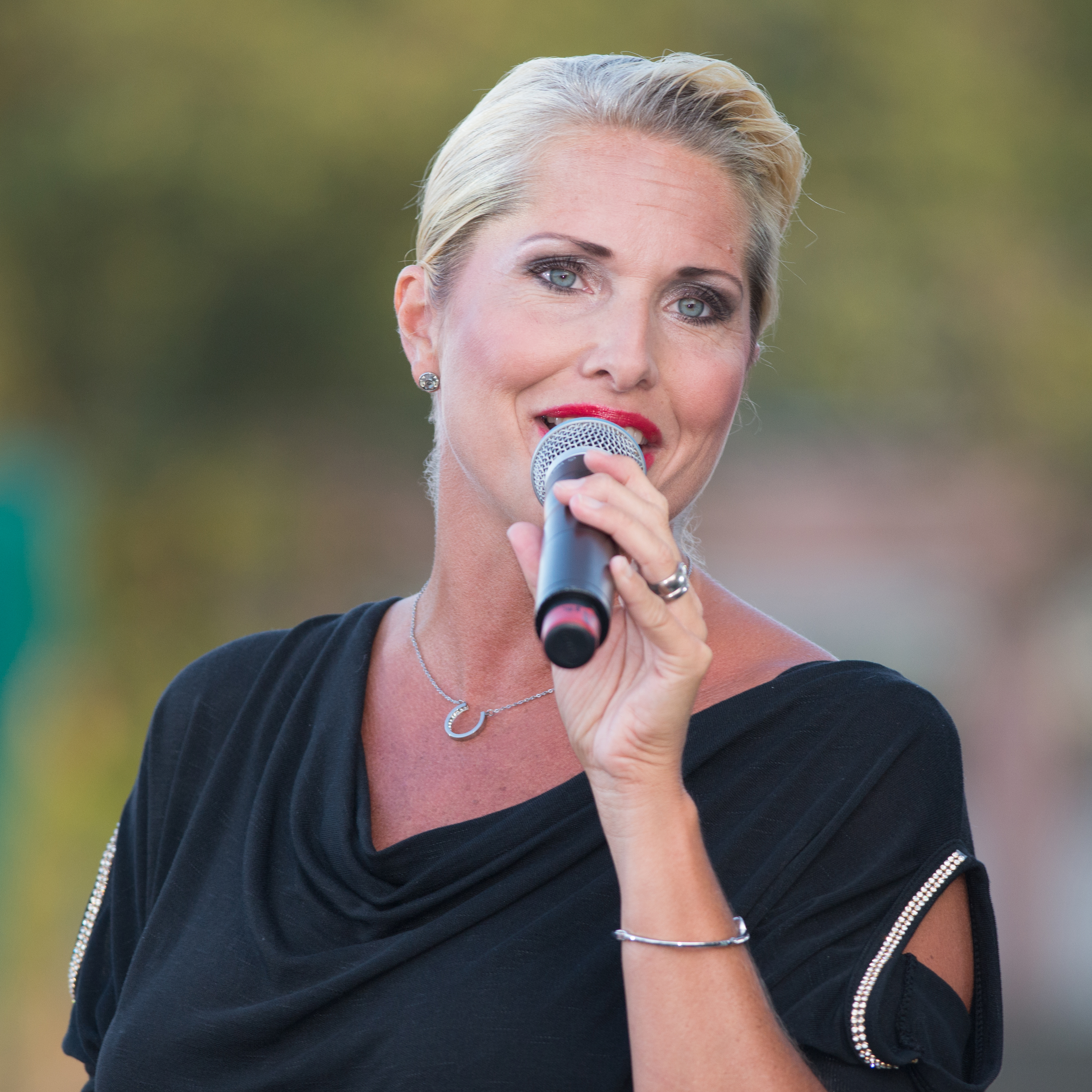 Viktoria Tolstoy July 2014